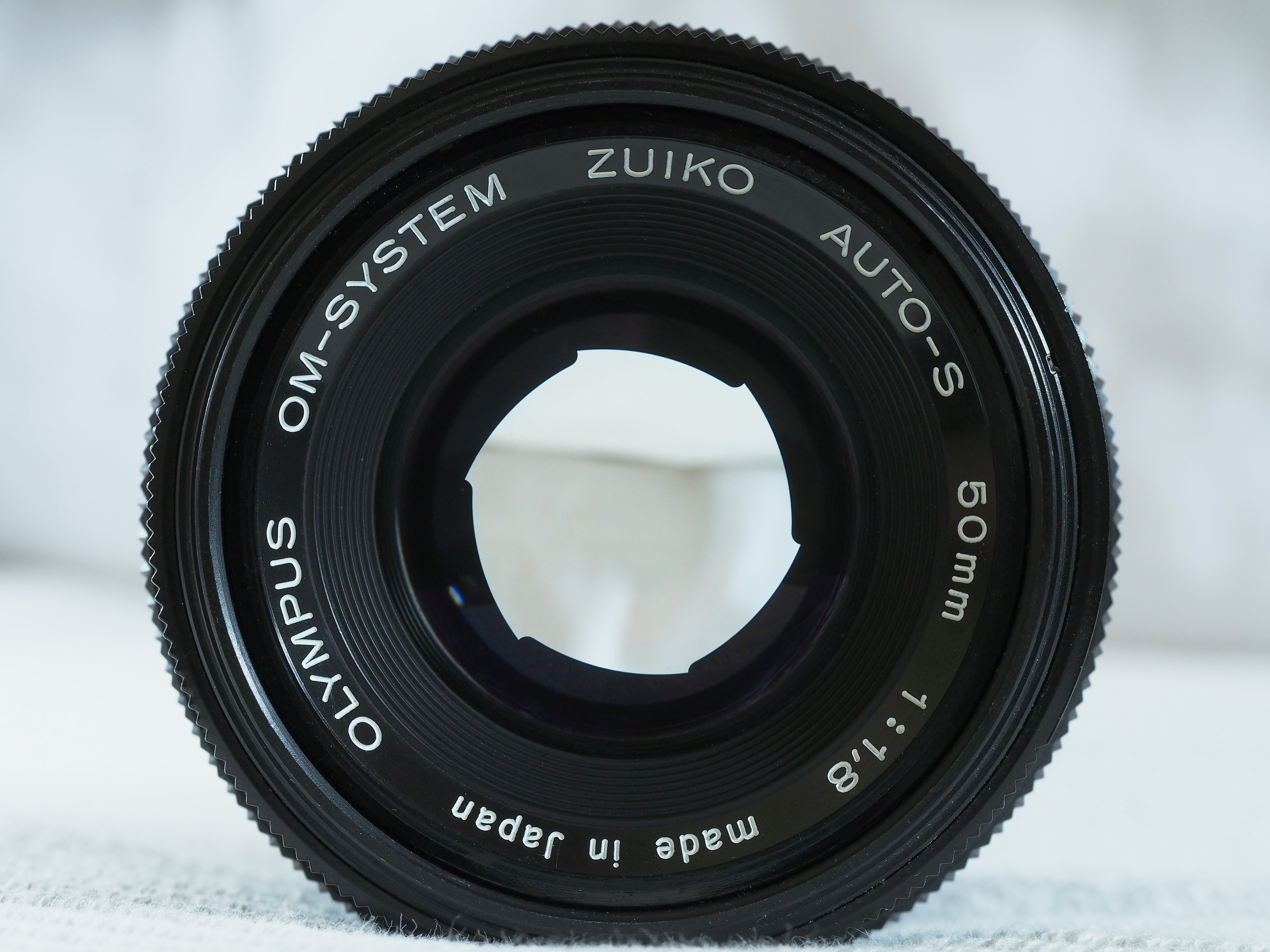 Olympus Zuiko OM 50 mm f/1.8 with visible 6 diaphragm blades which create aperture opening. Opened at f/2.8. Number of blades is relevant to bokeh, higher number of blades make bokeh more natural.